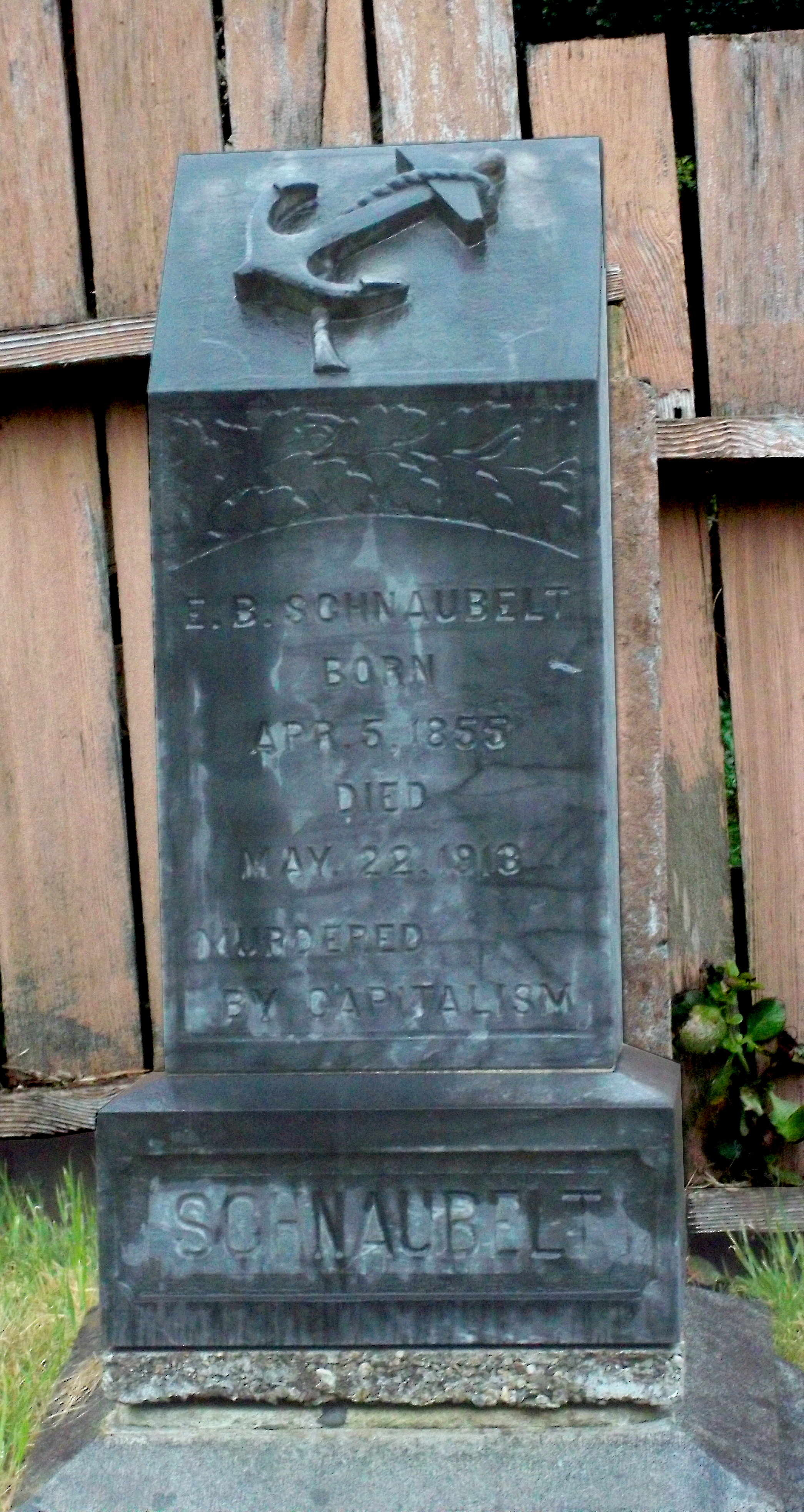 Tombstone in the Trinidad, California Cemetery. Photographed following rain that brought out more color in the stone. Inscription reads: "E. B. SCHNAUBELT BORN APR. 5. 1855 DIED MAY. 22. 1913 MURDERED BY CAPITALISM" This marker inspired the book "Murdered by Capitalism: A Memoir of 150 Years of Life and Death on the American Left" by John Ross. Edward Bernhardt Schnaubelt was the brother of Rudolph Schnaubelt who was accused of being the bomber from the Haymarket Riot (May 1886) in Chicago, Illinois.